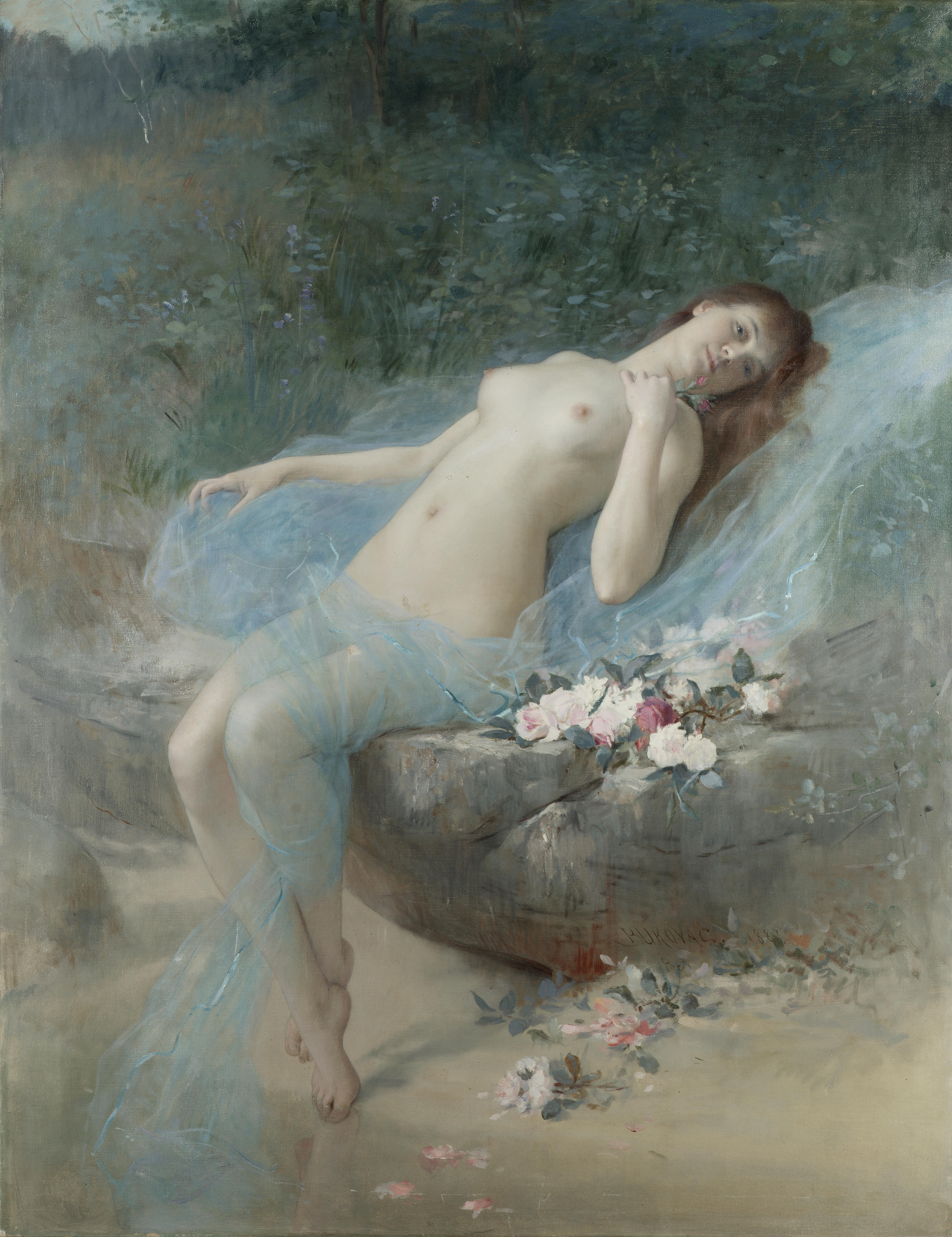 Reclining nude